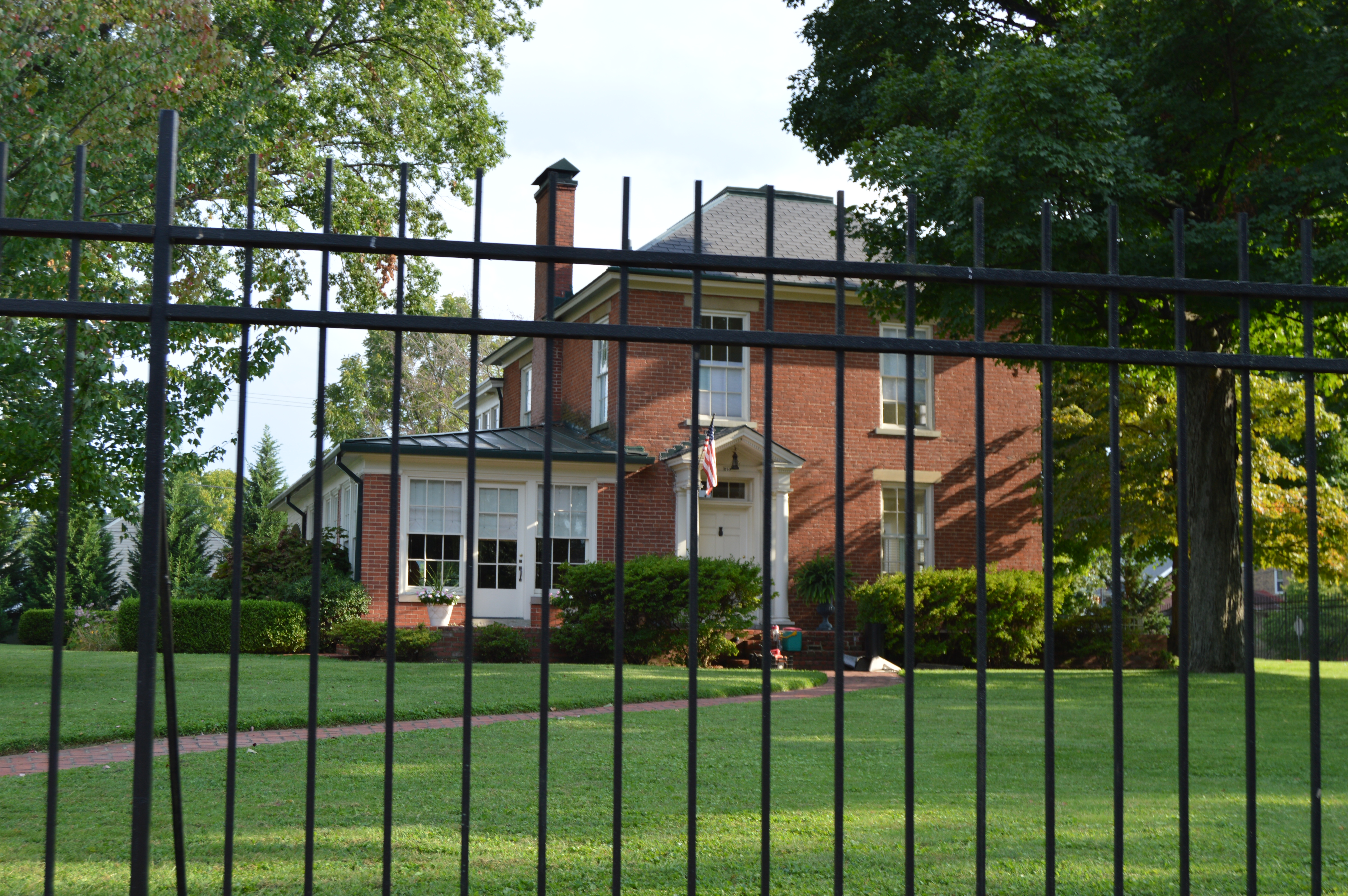 Front of the Johnston-Meek House, located at 203 Sixth Avenue in Huntington, West Virginia, United States. Built in 1832, it is listed on the National Register of Historic Places.